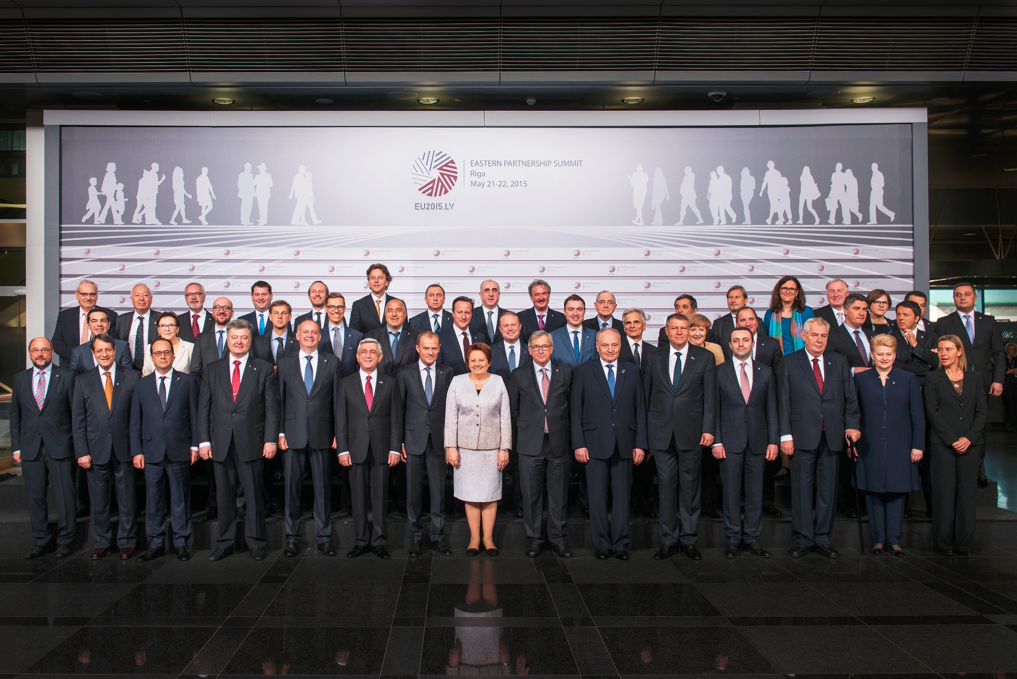 Eastern Partnership Summit in Riga 2015.